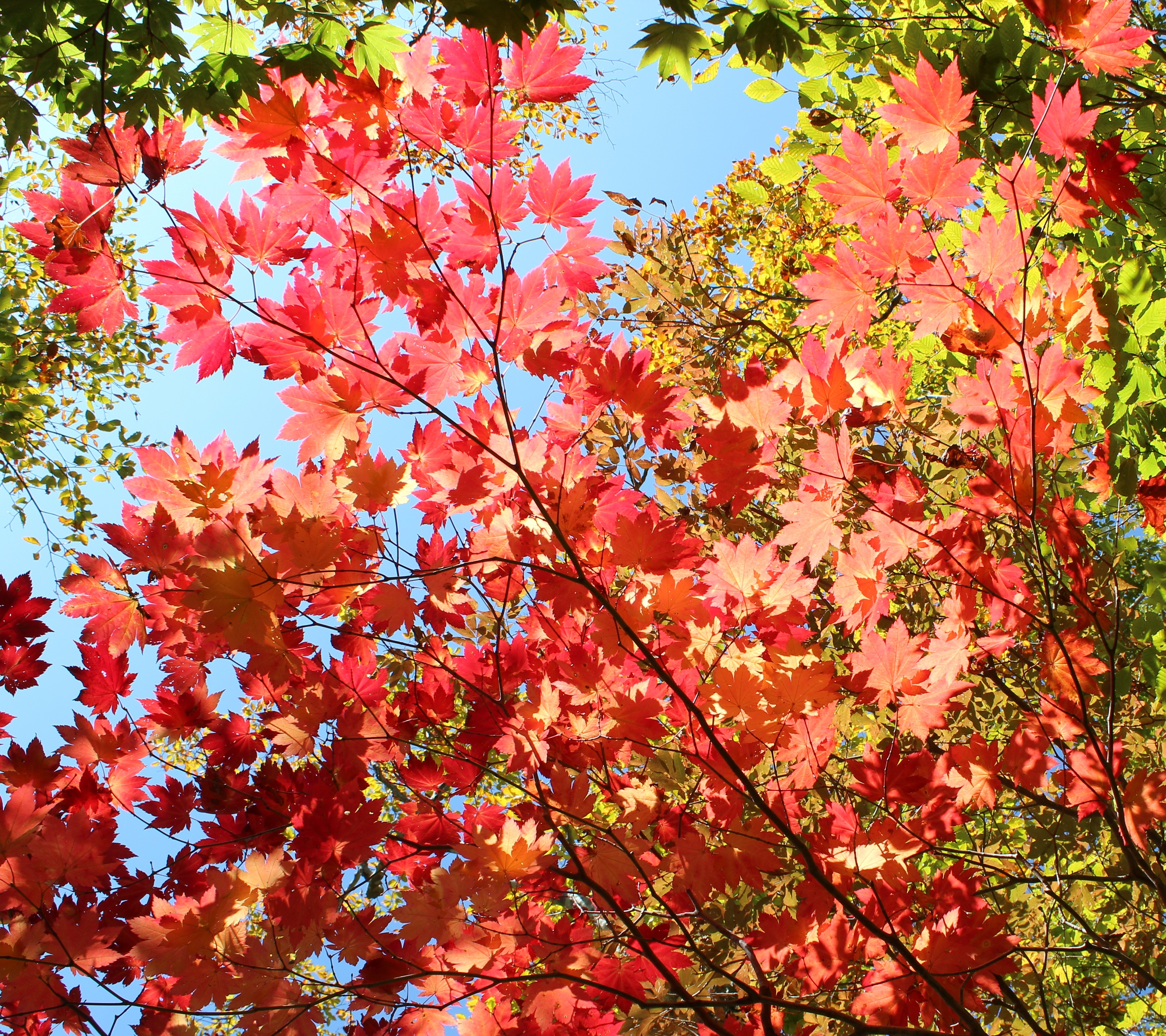 Red leaves of Acer japonicum seen from back side, in Ibigawa, Gifu, Japan.